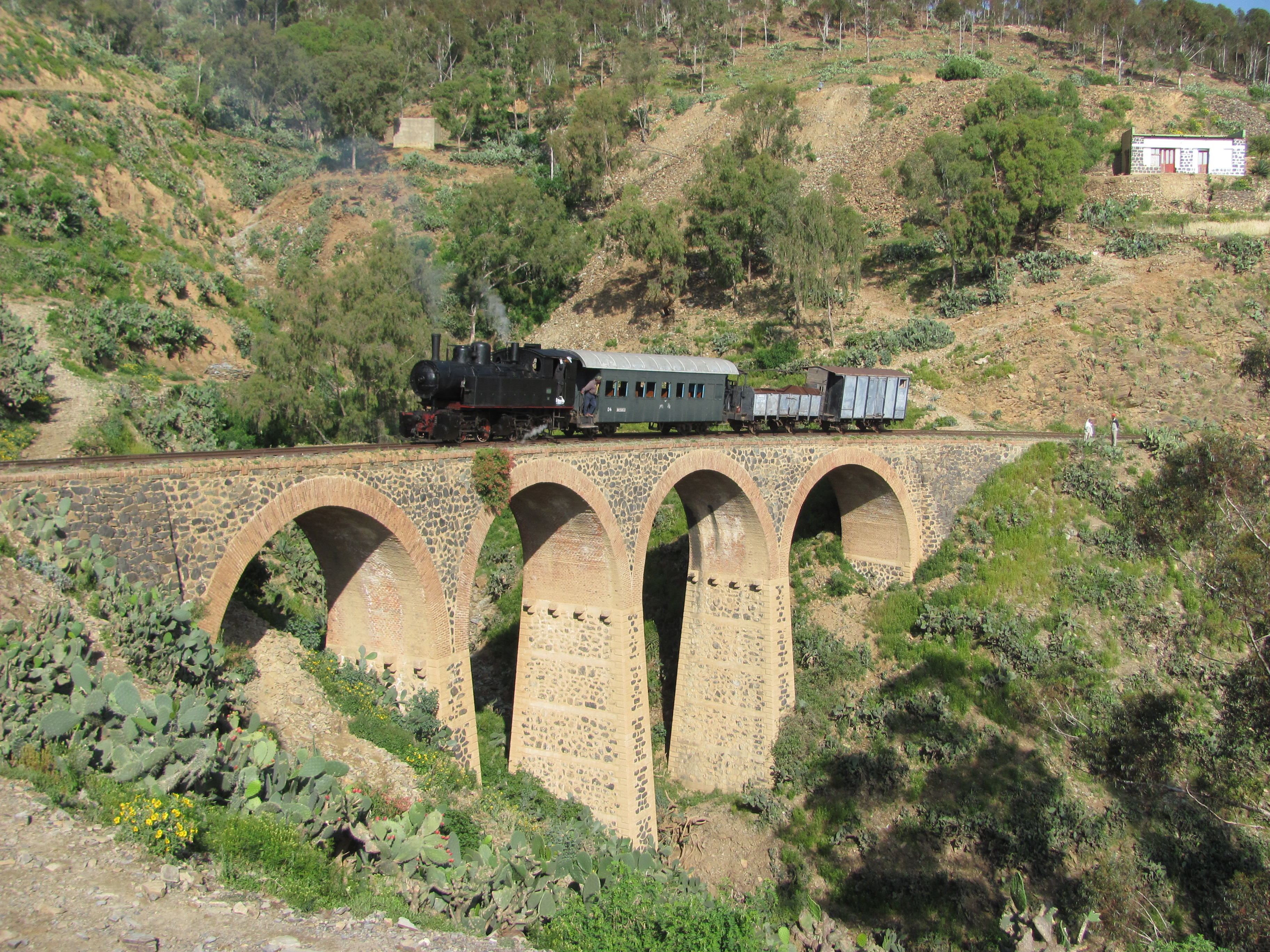 Train on bridge near Shegirini, Eritrea